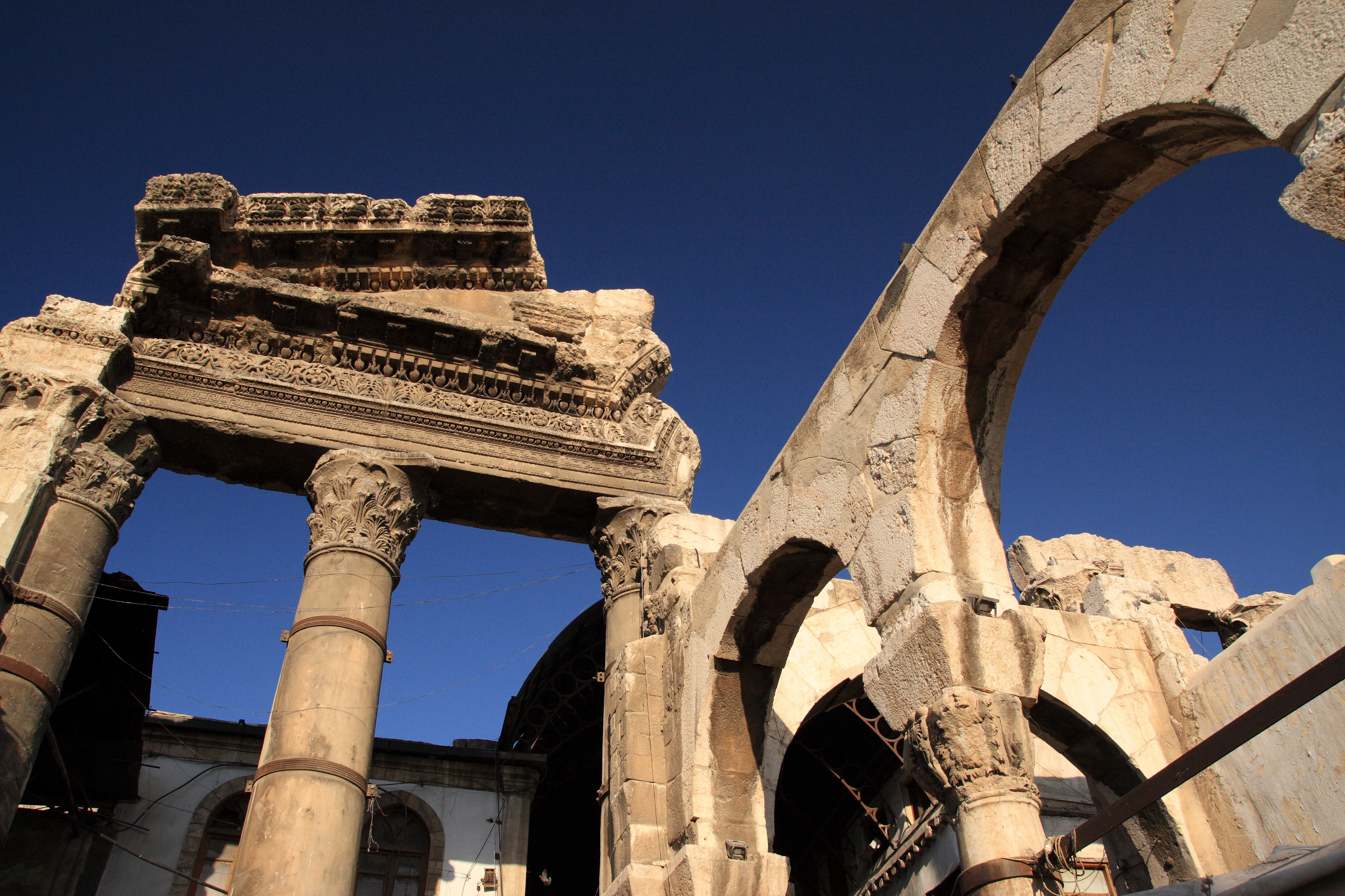 Ancient Roman temple in Damascus, Syria.